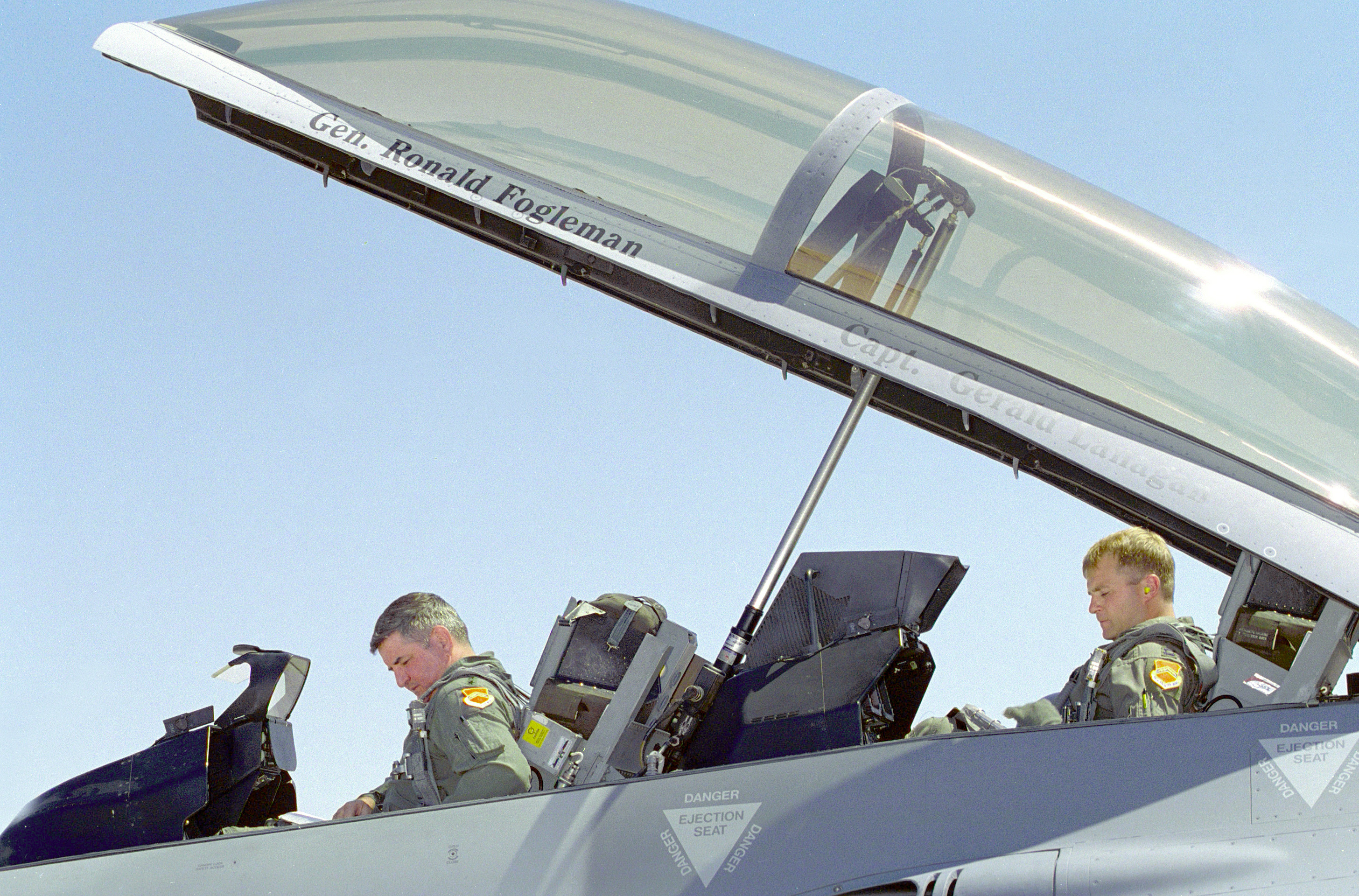 Air Force Chief of Staff General Ronald R. Fogleman along with Captain Gerald Lanagan from 63rd Fighter Squadron fly an F-16 Fighting Falcon.